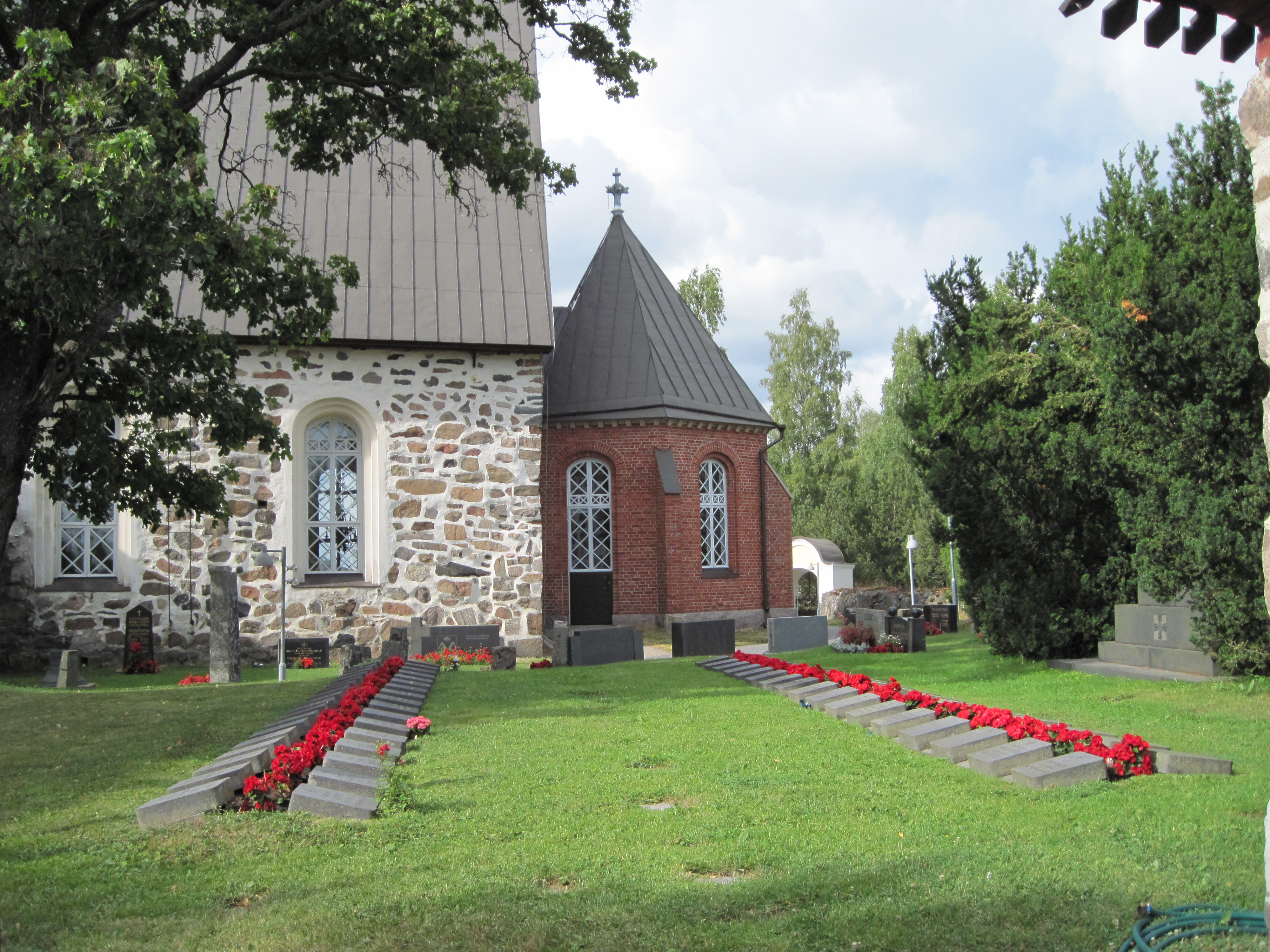 Military cemetary at church in Lieto, Finland